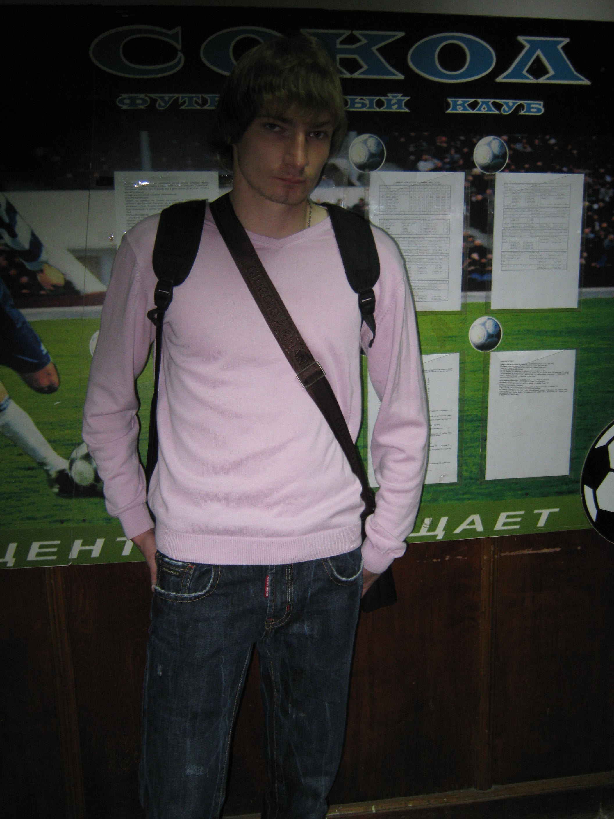 Dmitry Valeryevich Shikurin, former football player of PFK "Sokol" Saratov.